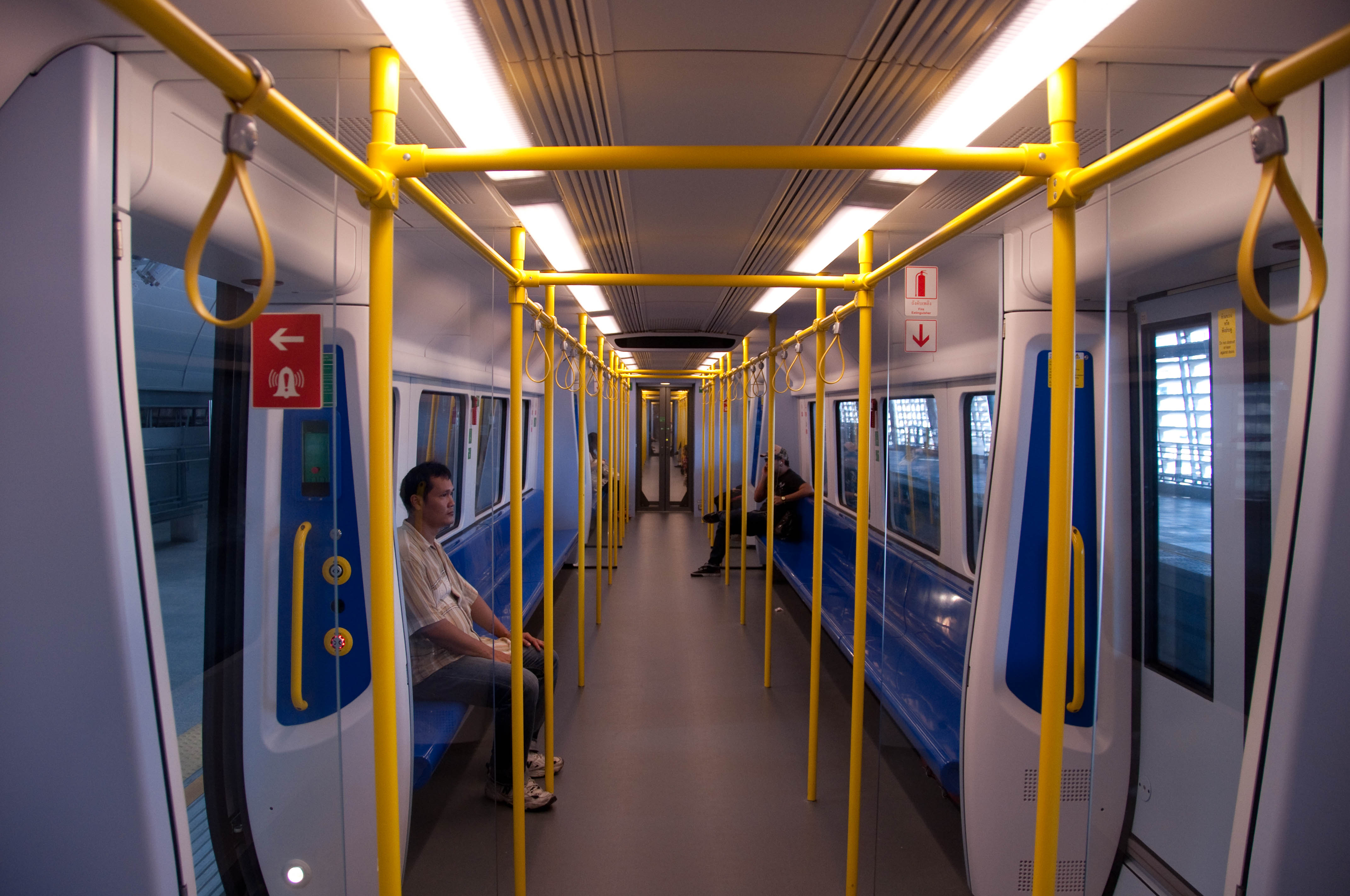 Interior of the new new Airport Rail Link train connecting Suvanabhumi airport with downtown Bangkok.